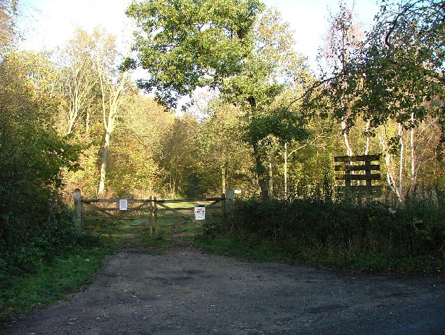 Eaton Woods Nature Reserve N Notts.